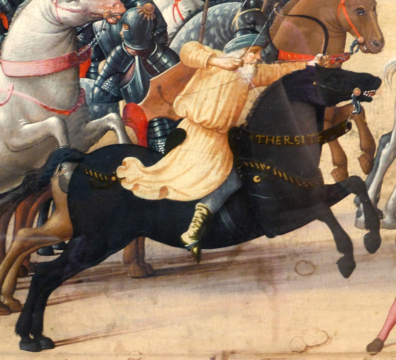 Biagio d'Antonio, Thersites, detail of cassoni 'The Death of Hector'. Late 15th century, Fitzwilliam Museum.